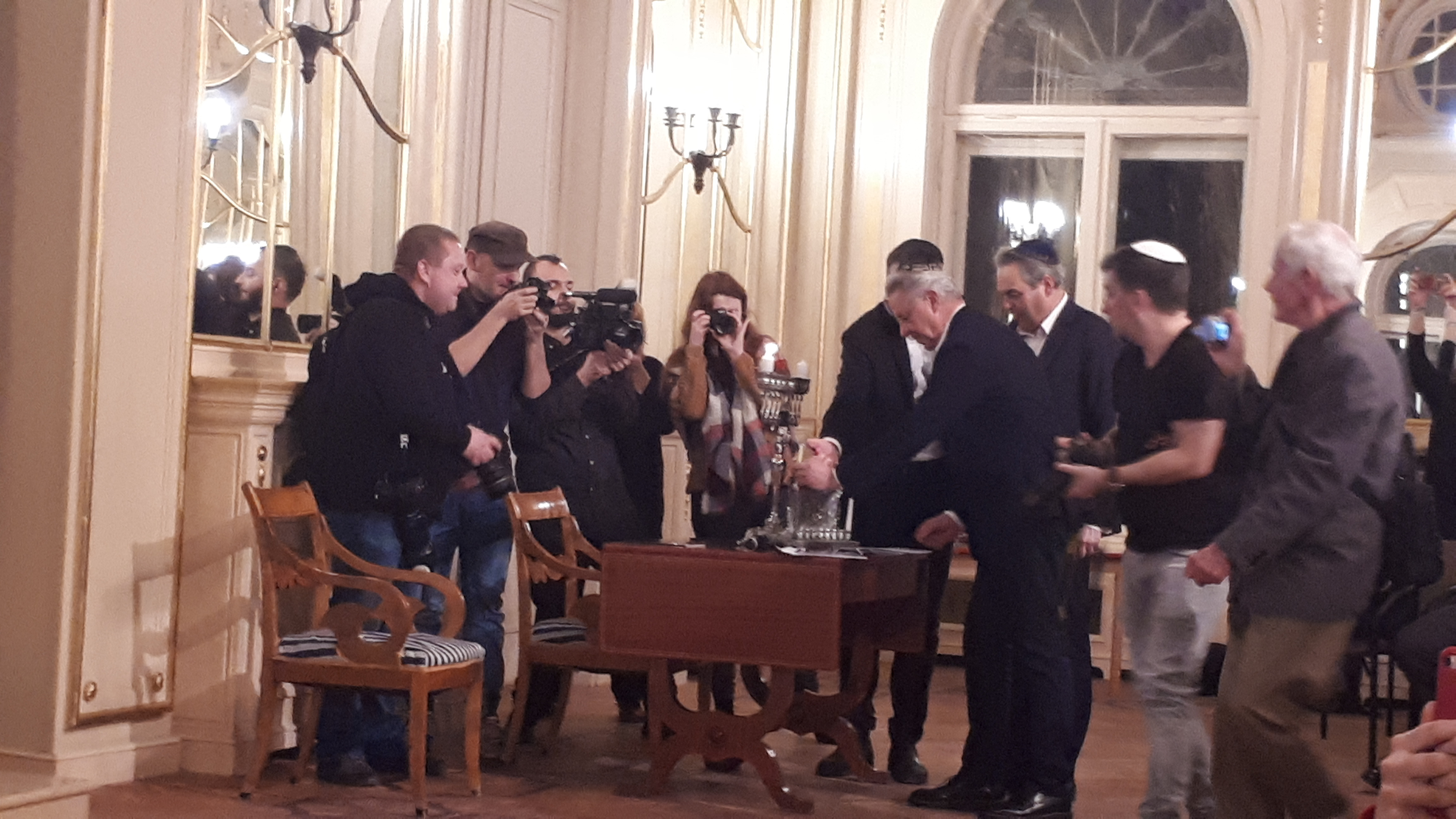 Chanukkah 2019 in Lodz